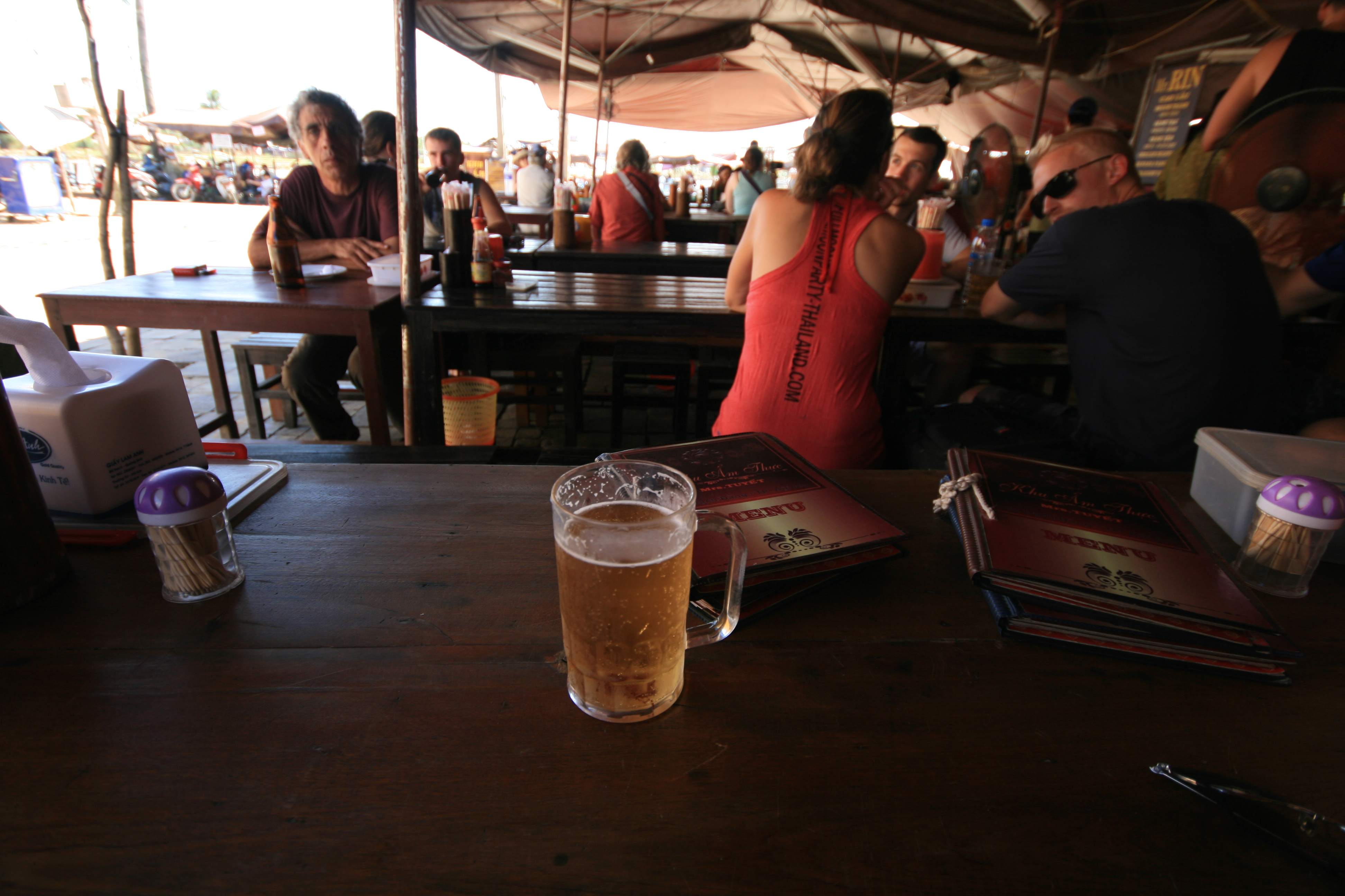 Bia hoi in Hoi An, Vietnam - a glassful of beer for only 3000 dong (about $0.16).